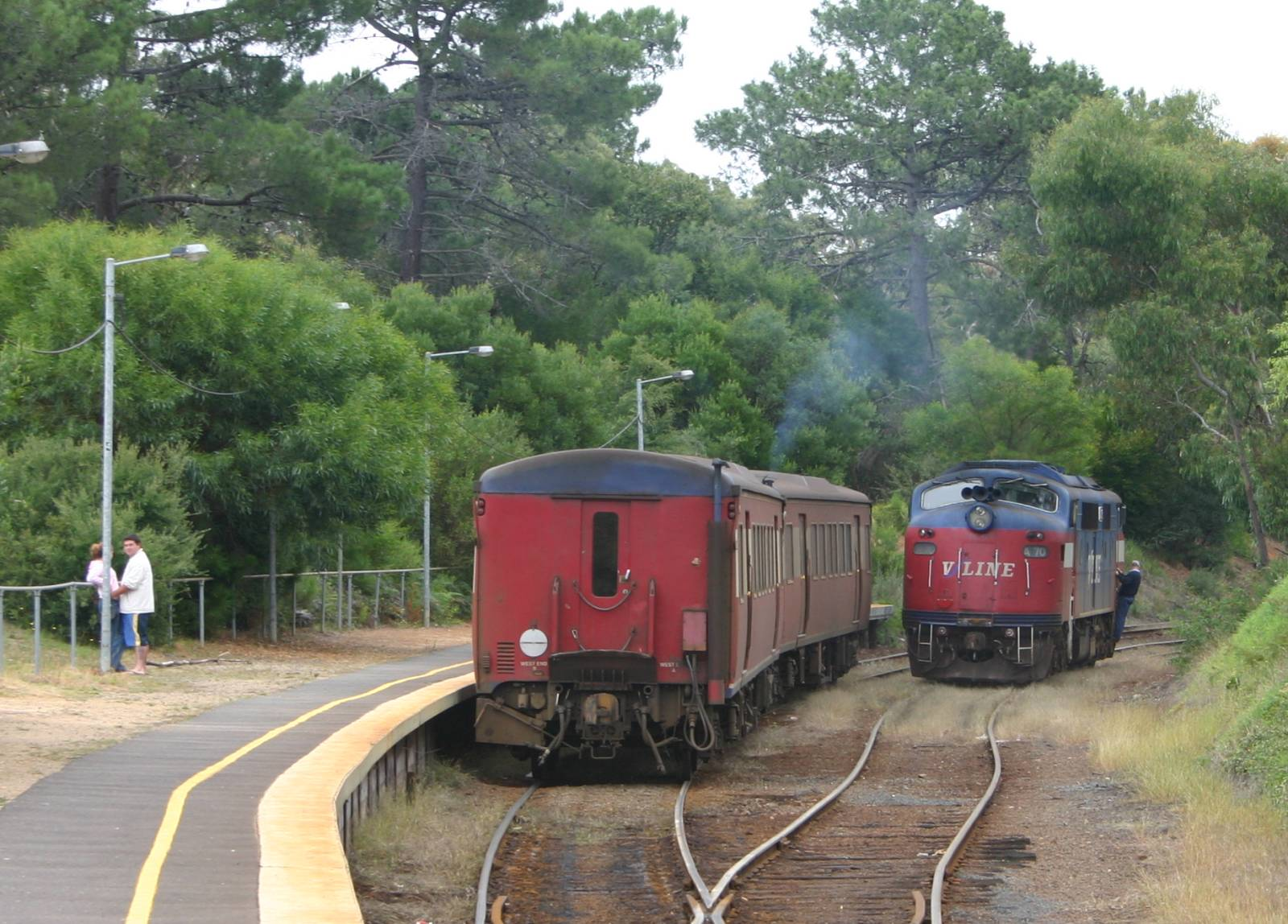 A70 locomotive changing direction at Stony Point station. March 2005.